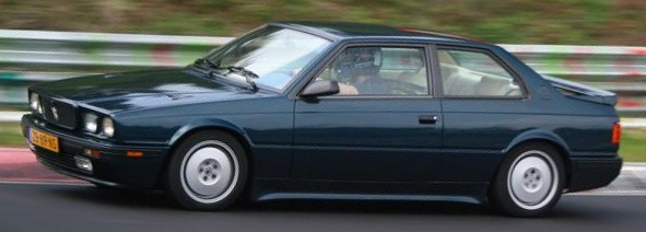 Maserati 222E (probably), excerpt from picture Maserati 222SE by Joltcan